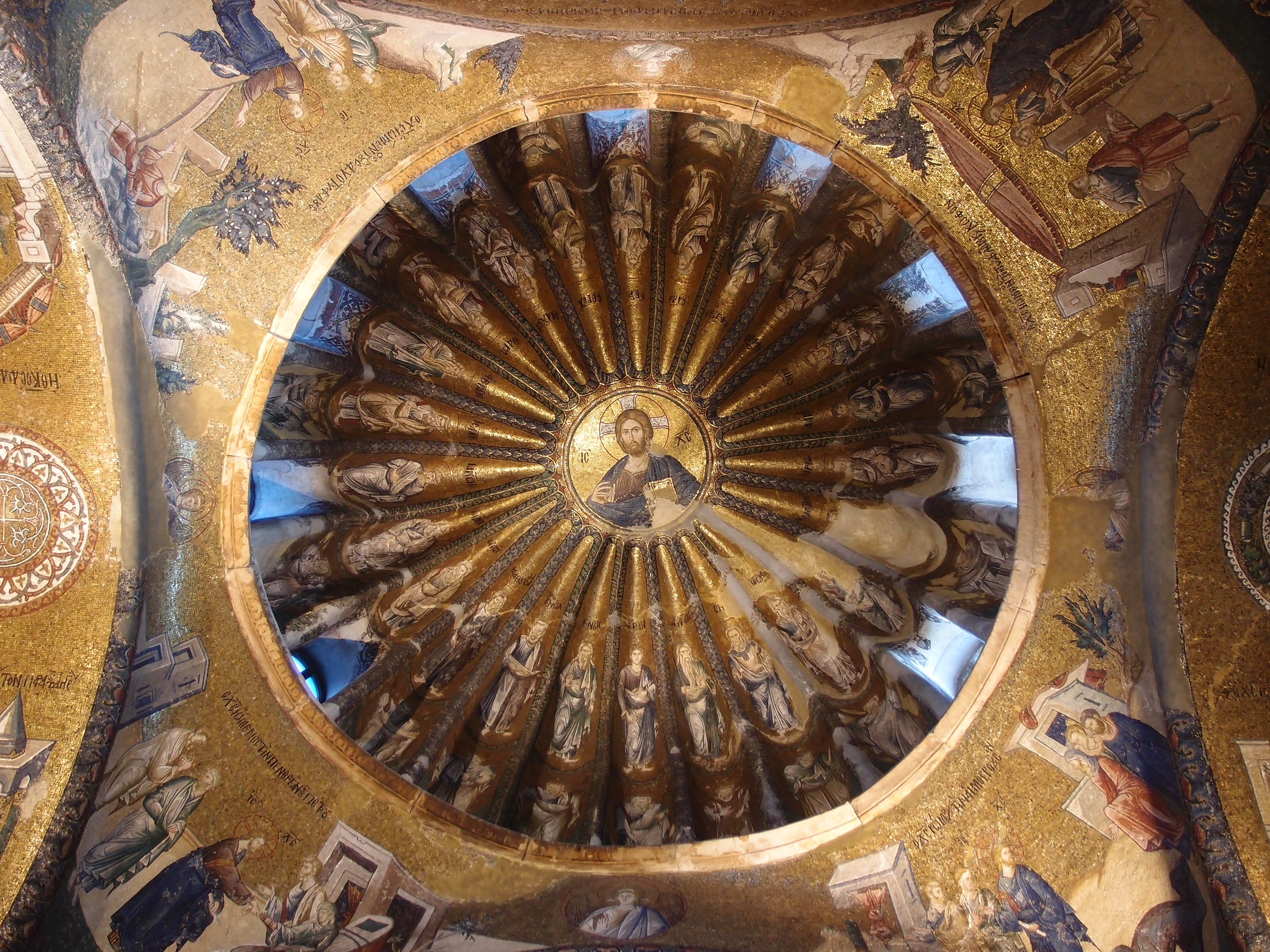 Saint Savior in Chora